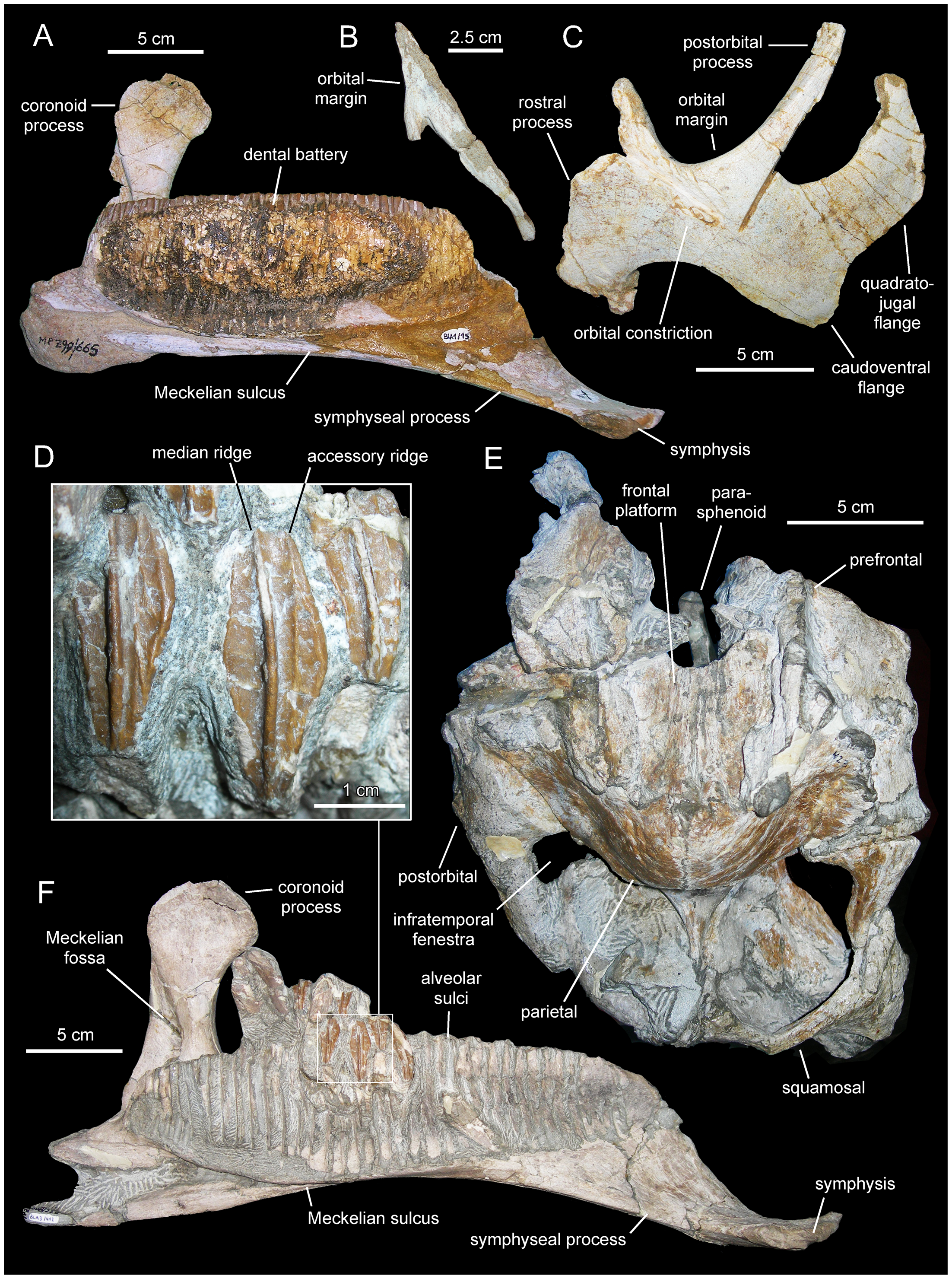 A. Left dentary of B. canudoi (MPZ 99/665) in medial view. B. Right lacrimal of B. canudoi (MPZ 2009/348) in lateral view. C. Left jugal of B. canudoi (MPZ 99/667) in lateral view. D. Dentary tooth crowns of A. ardevoli (MPZ 2008/258) in lingual view. E. Caudal region of the skull roof of A. ardevoli (MPZ 2008/1) in dorsal view. F. Left dentary of A. ardevoli (MPZ 2008/258) in medial view.